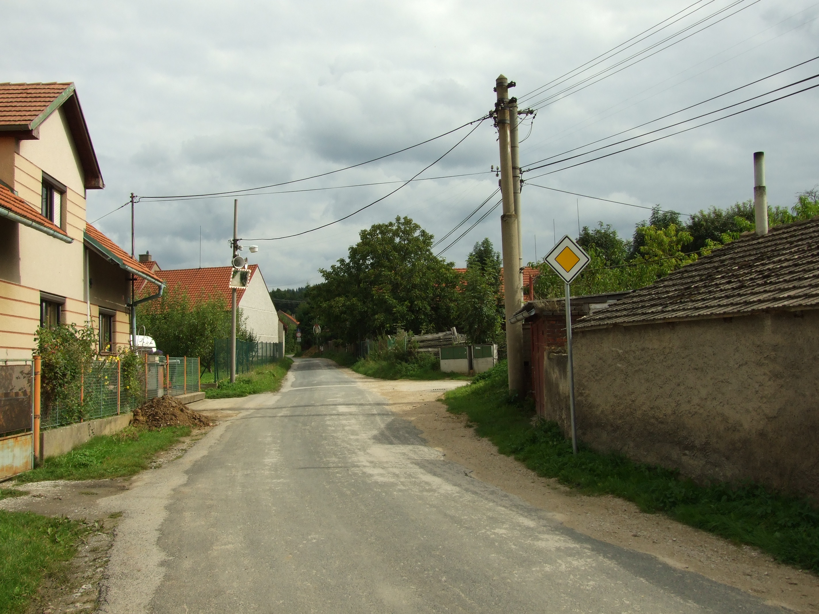 Town of Podbrdy in Beroun District. Central Bohemian Region, CZ